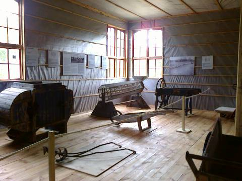 Tyrnävä museum of farming equipment